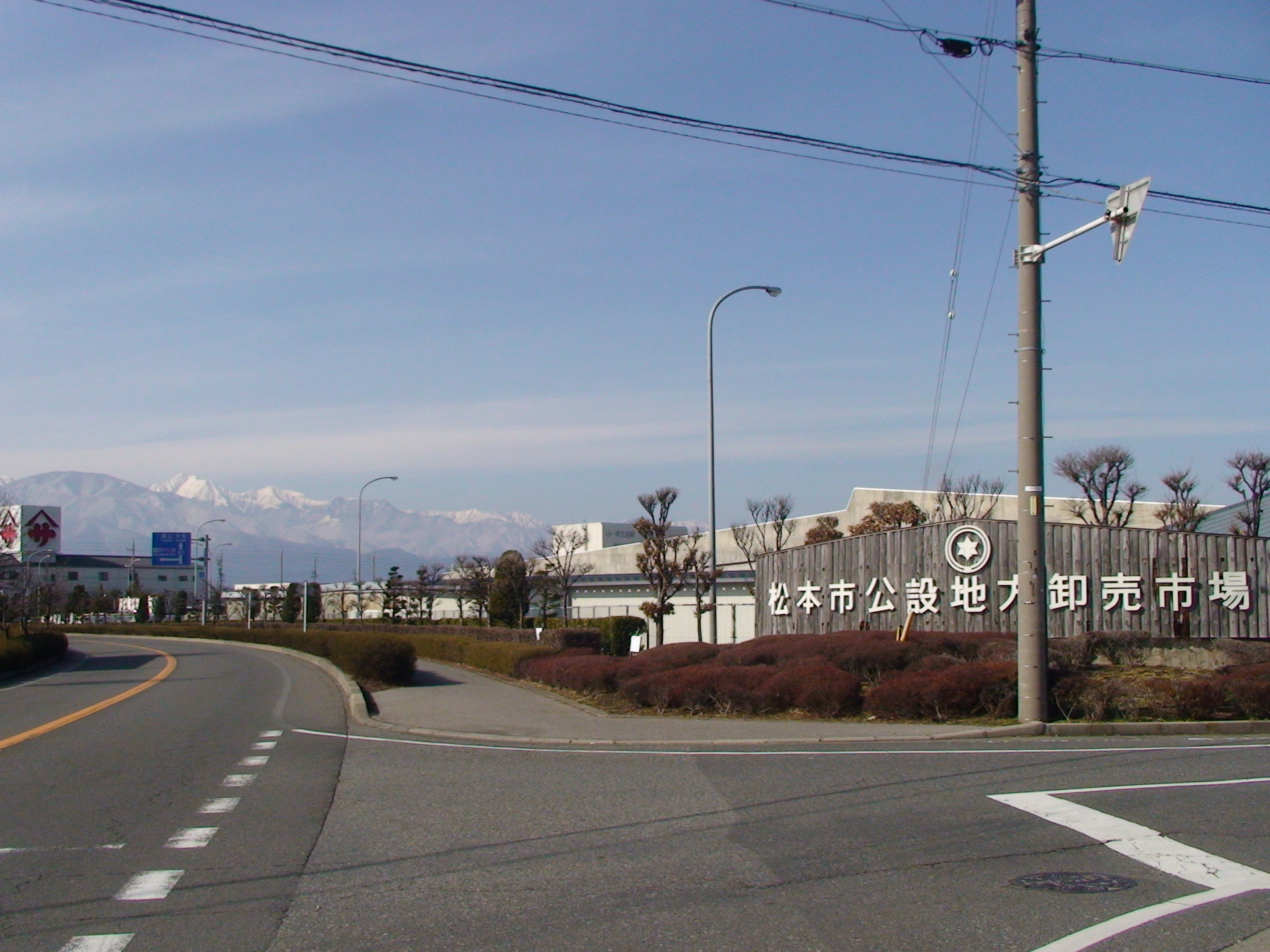 Matsumoto public facilities wholesale market